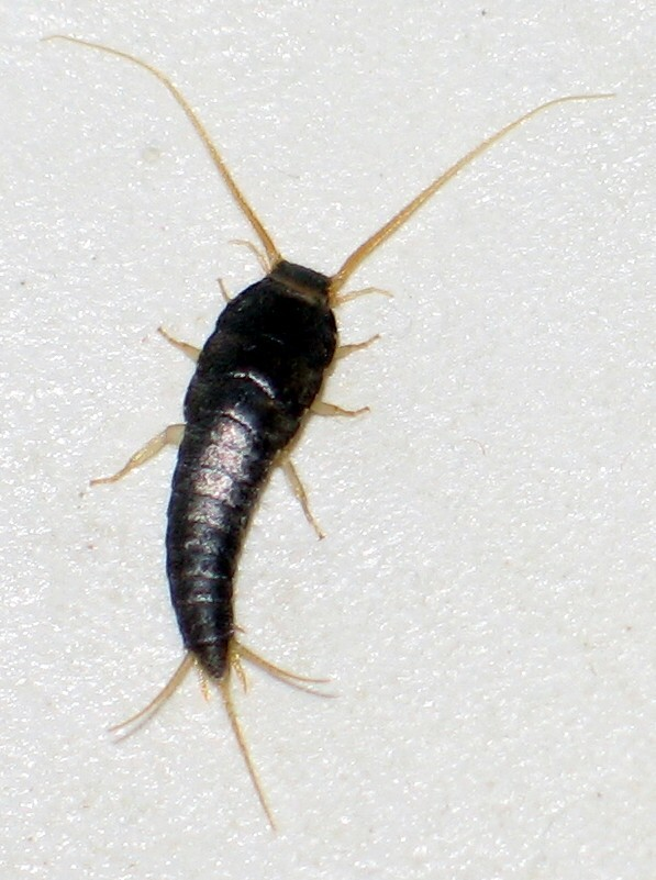 Lepisma saccharina (white background)